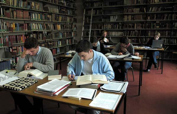 I'm staff of the copyright holding organization and clarified the copyright status of the pictures - in the uploaded low-resolution version - personally with the authoritative press office of the university. Fred Plotz (talk) 12:28, 10 February 2008 (UTC)